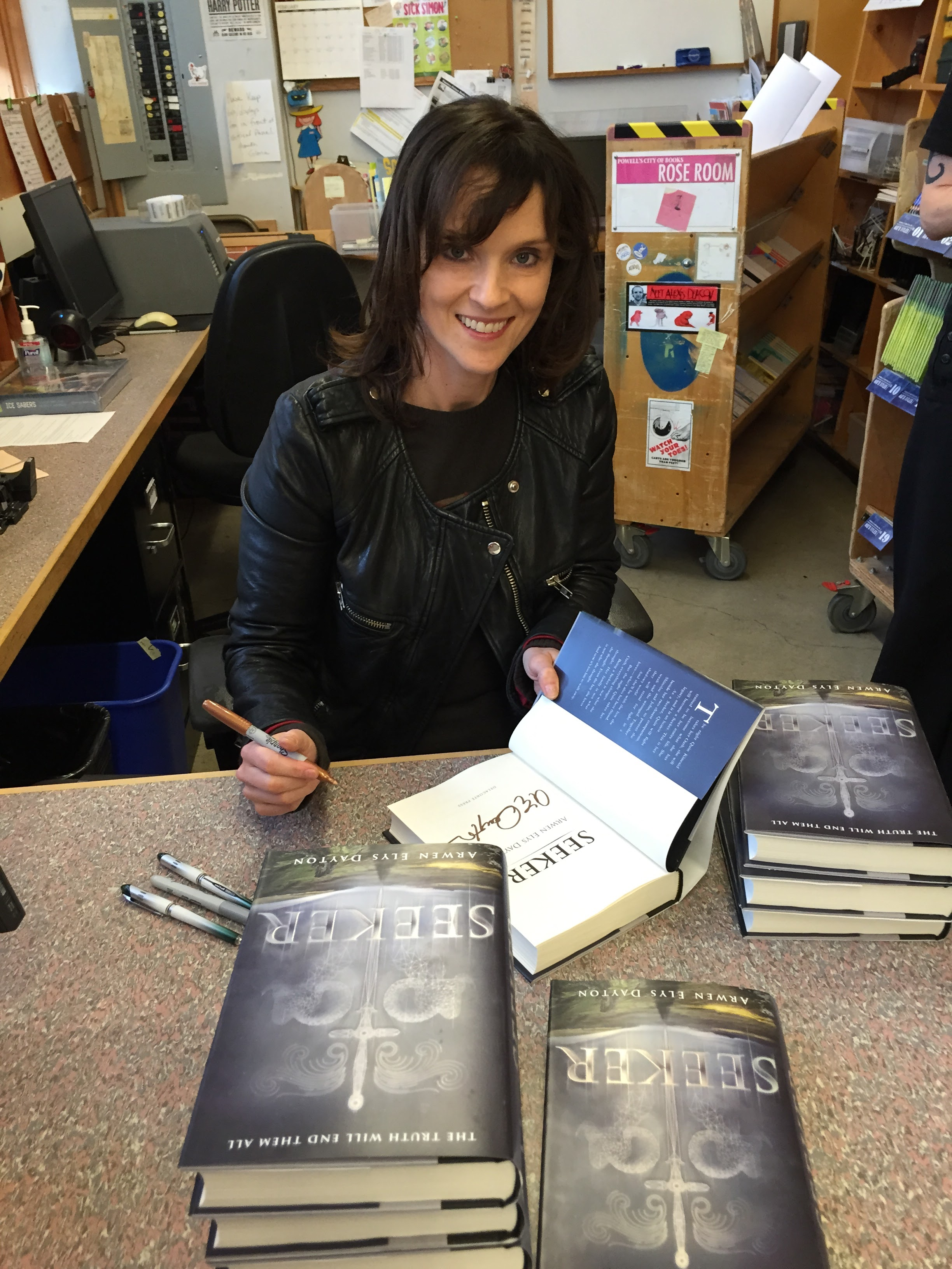 Author Arwen Elys Dayton signing books at Powell's Books in Portland, Oregon